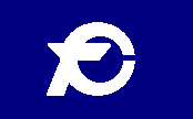 Flag of Oshika Nagano